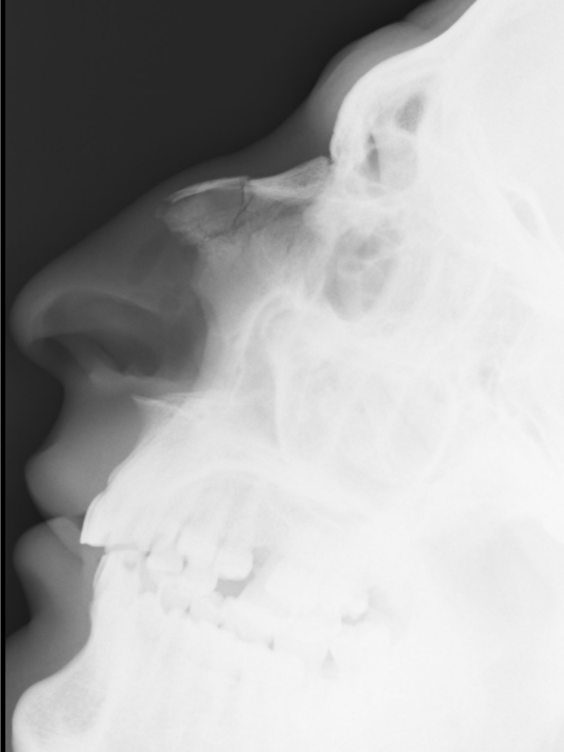 Medical X-rays. Image may not be to scale